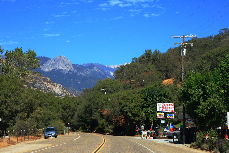 California State Route 198 in Three Rivers, California.